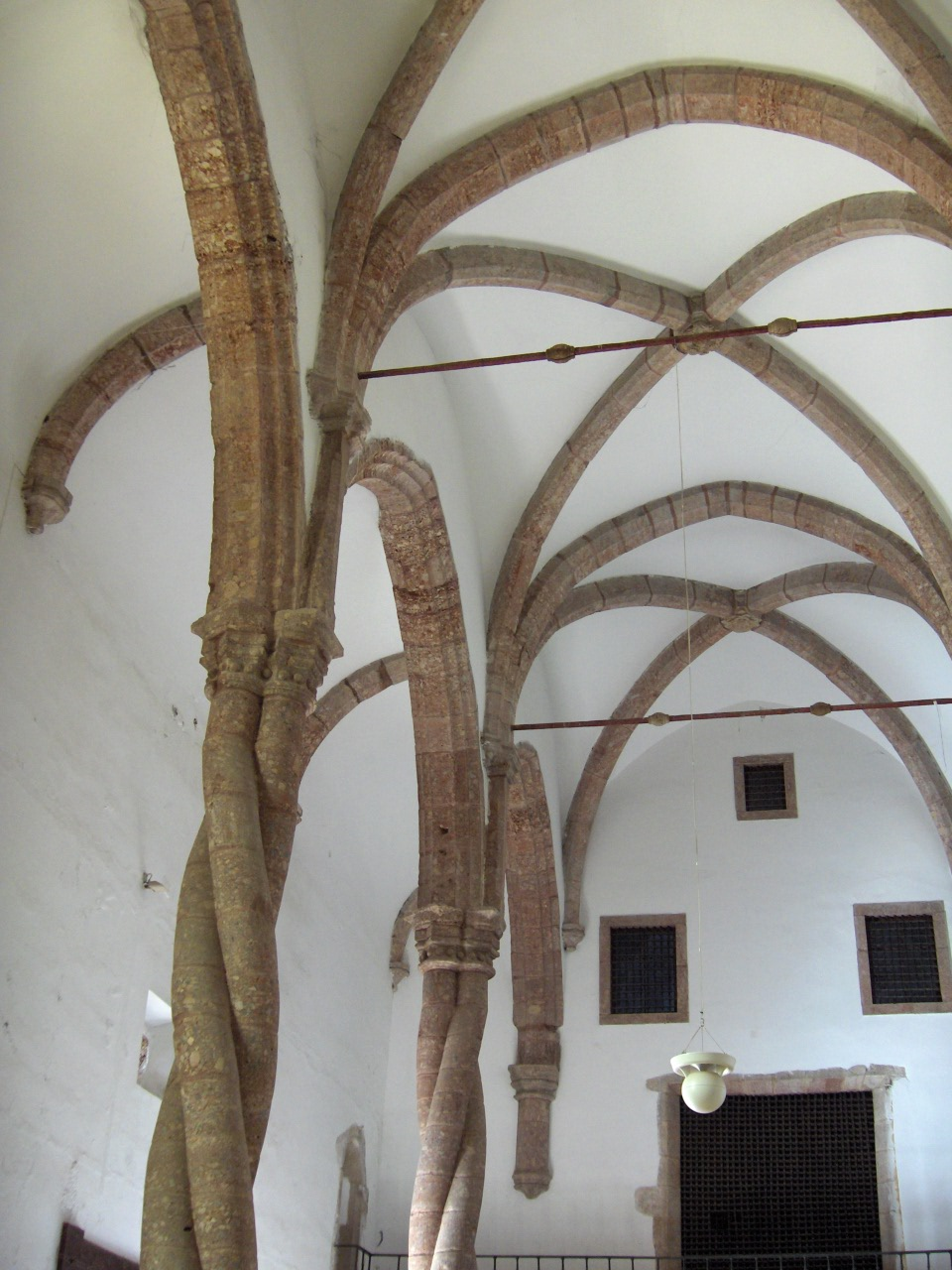 Ribbed vault of the Jesus church (Igrejia de Jesus); Setúbal, Portugal